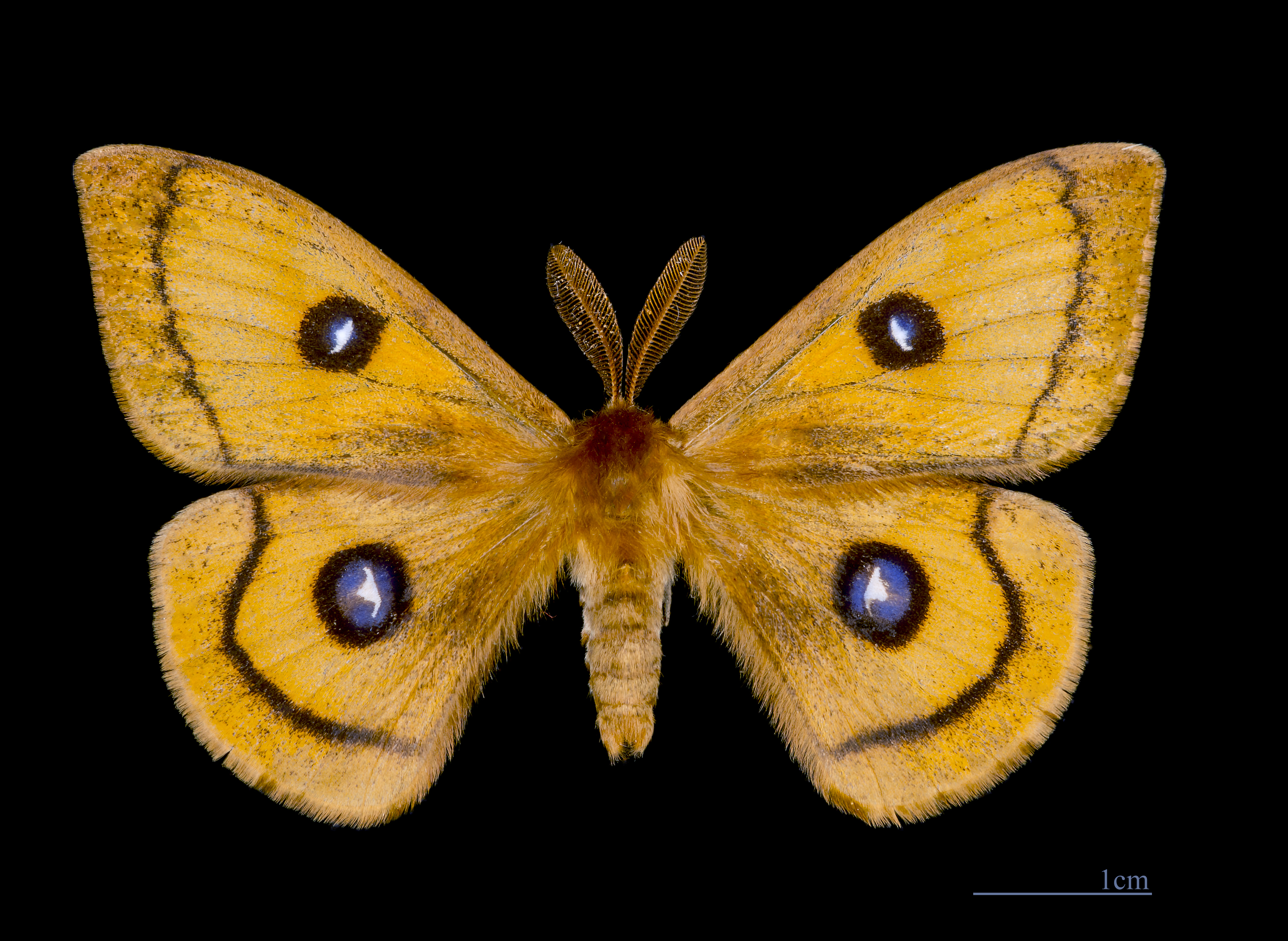 Tau Emperor, Dorsal side.